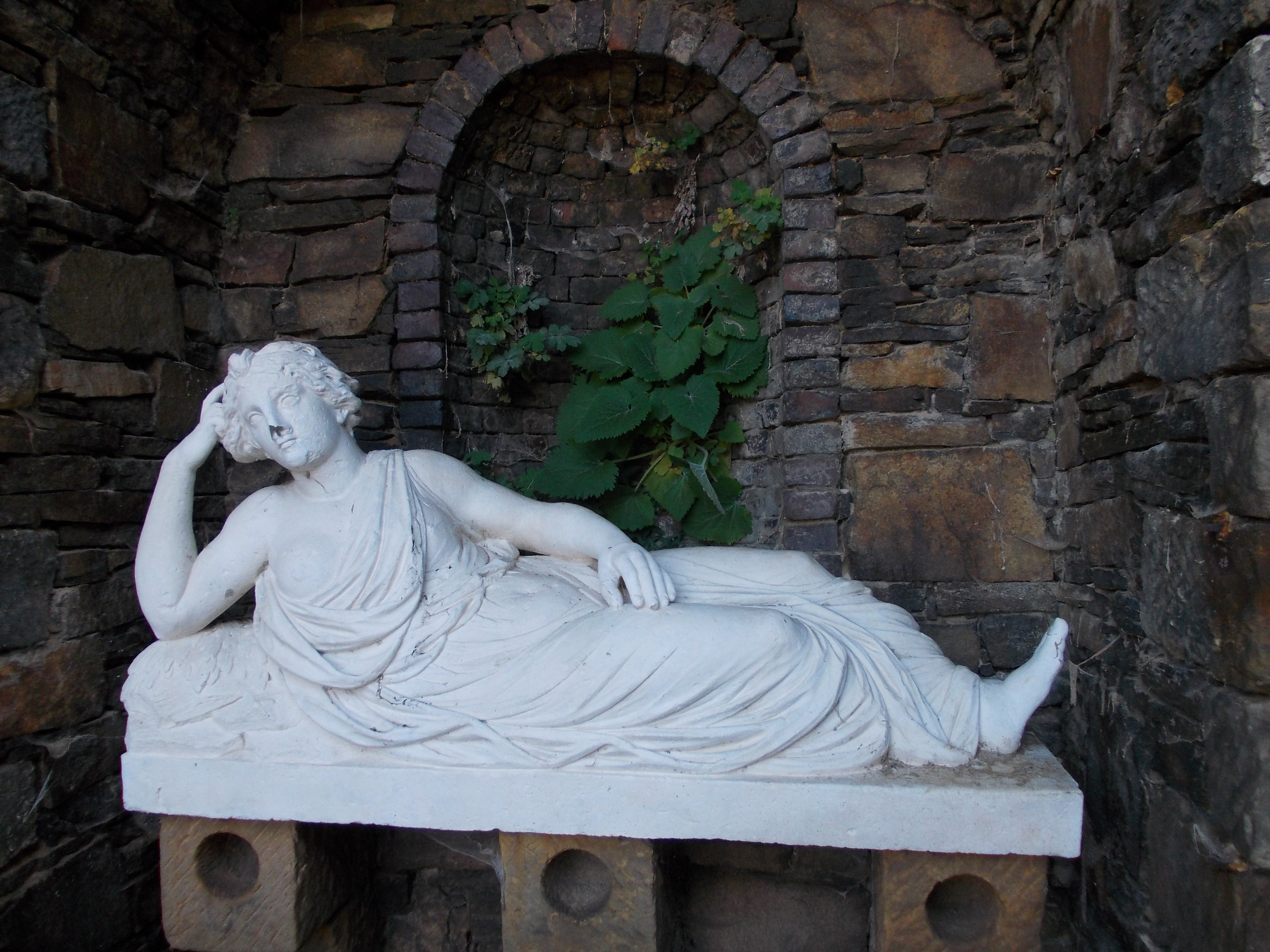 Grotto of Egeria in the gardens of Wörlitz